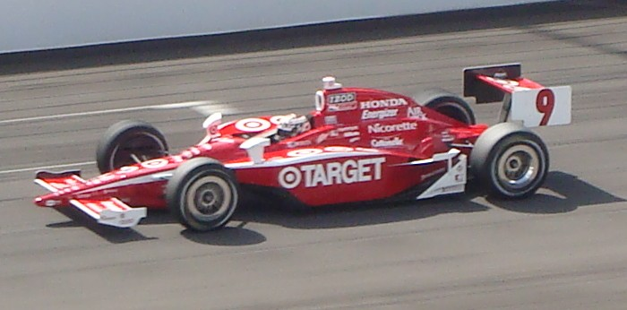 Scott Dixon qualifies for the 2010 Indianapolis 500 on Pole Day, during the "shootout" segment of qualifying. Dixon would qualify for the sixth starting spot on the outside of Row 2.